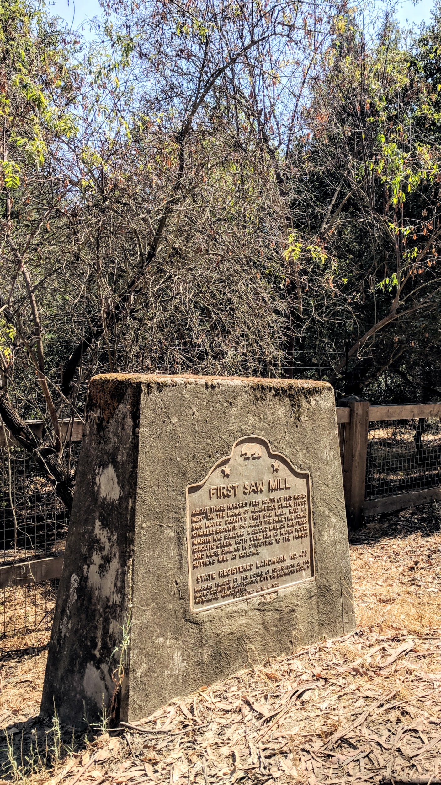 California State Registered Landmark number 478, a monument to Charles Brown's mill, the first sawmill in San Mateo County, 1847. Marker is on Portola Road, near La Honda Road, Woodside.